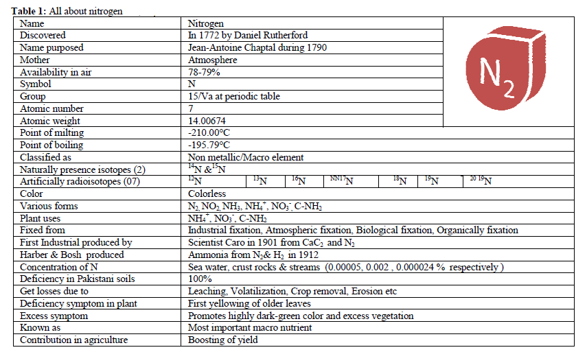 All about nitrogen